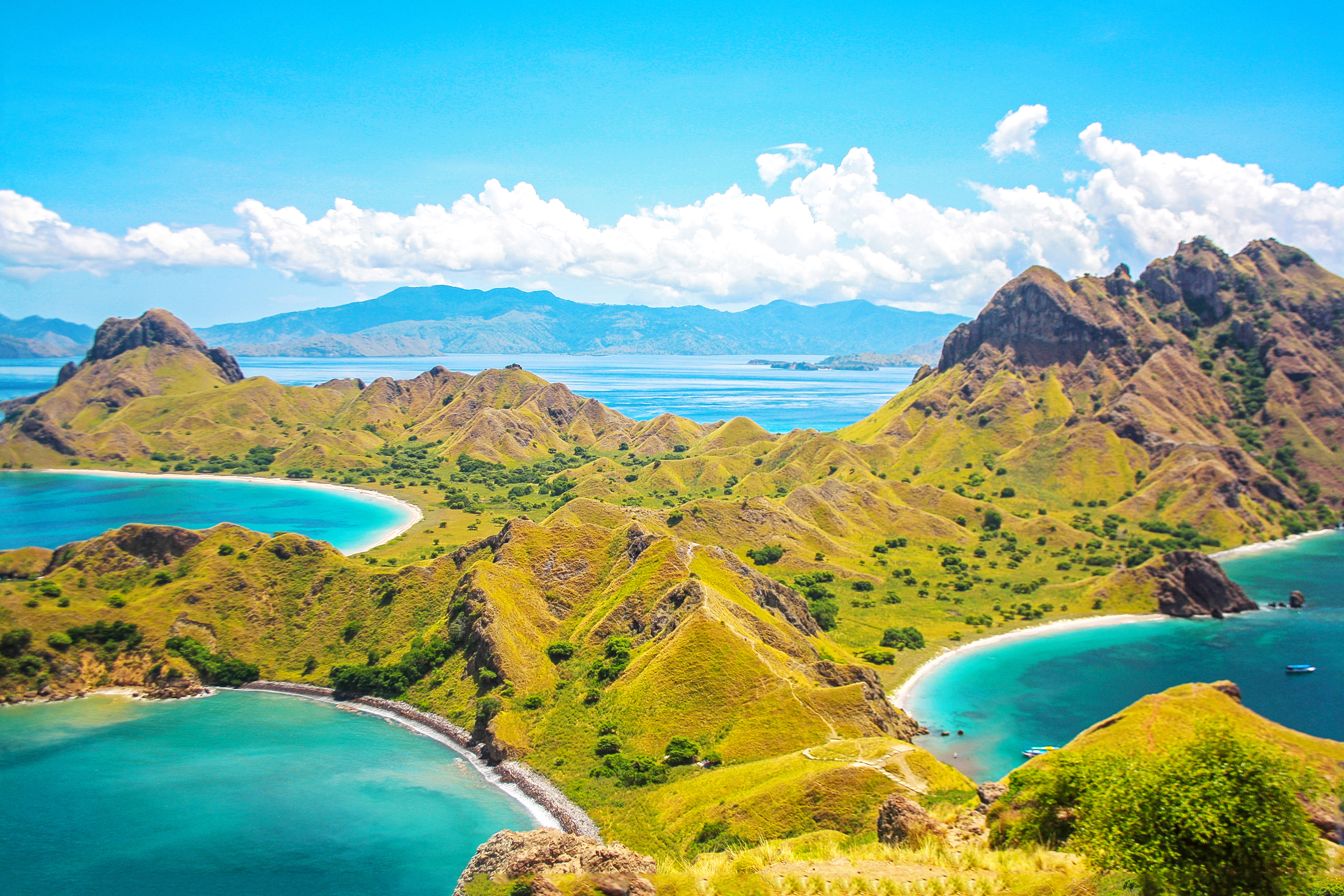 Padar is a small island located between Komodo and Rinca islands within Komodo archipelago, administrated under the West Manggarai Regency, East Nusa Tenggara, Indonesia. It is the third largest island part of Komodo National Park